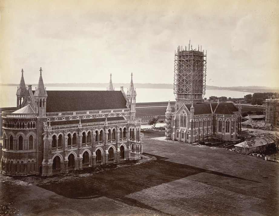 Photograph of the Bombay University buildings, taken by an unknown photographer in the 1870s in Bombay (Mumbai), Maharashtra, from an album of 40 prints mostly dating from the 1860s. Bombay, the capital of Maharashtra and one of India's major industrial centres and a busy port, was originally the site of seven islands on the west coast, sparsely populated by Koli fisherfolk. Bombay was by the 14th century controlled by the Gujarat Sultanate who ceded it to the Portuguese in the 16th century. In 1661 it passed to the English as part of the dowry brought to Charles II by the Portuguese princess Catherine of Braganza. By the 19th century Bombay was a prosperous centre for maritime trade and underwent an ambitious phase of building which resulted in a collection of some of the finest Victorian architecture in Asia. Much of Bombay's buildings were designed by architects living and working in Bombay. However, the Bombay University complex comprising two separate buildings, the Library (built 1869-78) and the Convocation Hall (built 1869-74), was designed by Sir George Gilbert Scott from his office in London, in the Decorated French style of the 15th century. The project was funded by the Parsi philanthropist Sir Cowasji Jehangir Readymoney and by Premchand Roychand, the banker and 'Cotton King'. The view from Watson's Hotel looks towards the Convocation Hall at left and the University Library and the Clocktower, (the latter completed in 1878 and here seen shrouded in scaffolding), at right. With part of the Esplanade and Back Bay in the background.